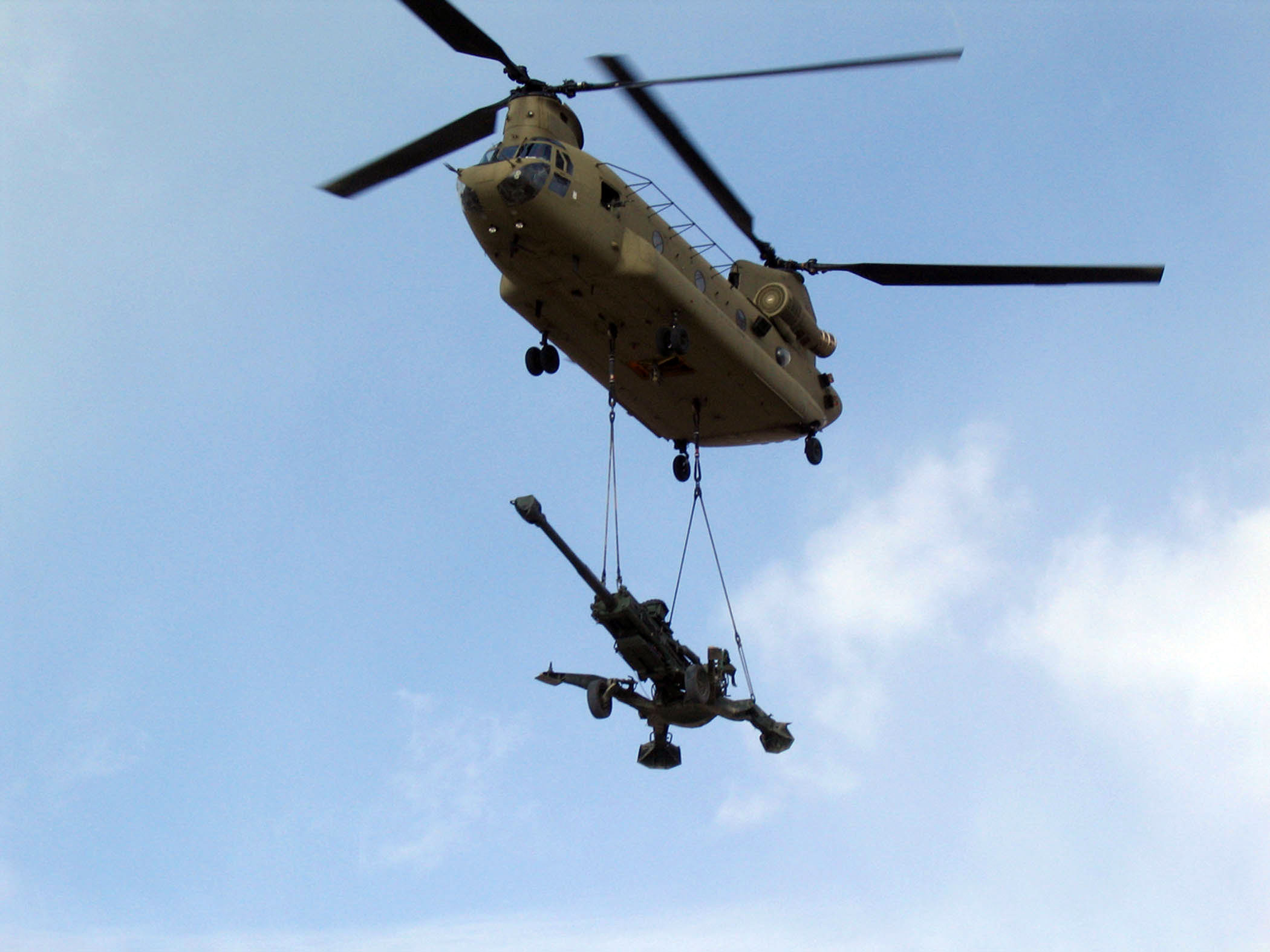 A CH-47 Chinook helicopter air lifts a large 155 MM Howitzer onto Forward Operating Base Shank. Now that the FOB houses more people, it will need a larger defense against enemy attack.